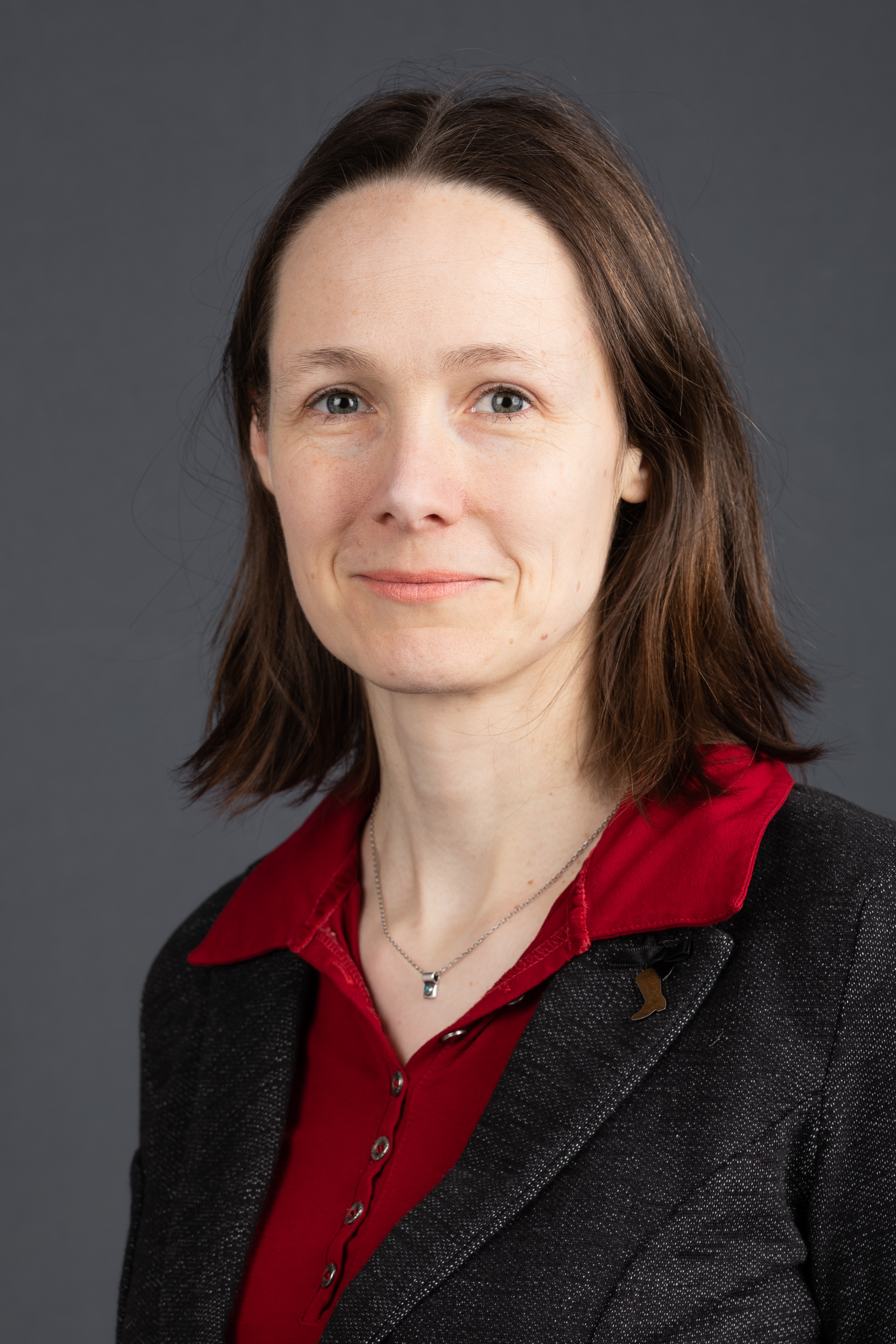 Ingrid Nestle, German Bundestag, Berlin, Febuary 2020